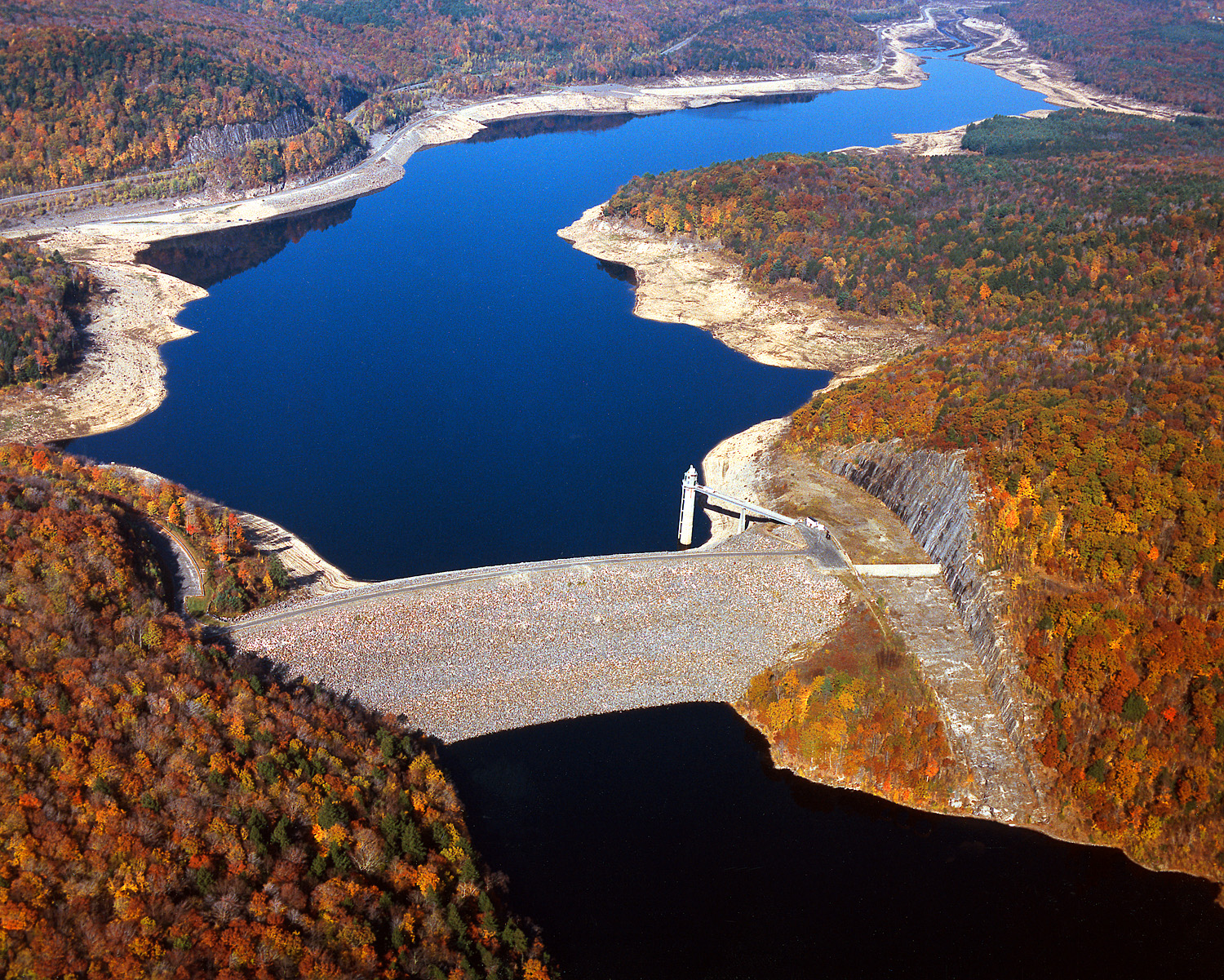 The Colebrook Dam on the West Branch of the Farmington River in Litchfield County, Connecticut, USA. This dam impounds the West Branch Reservoir on the river. At the bottom of the picture, directly below the dam, is the Colebrook River lake, impounded by another dam downriver.